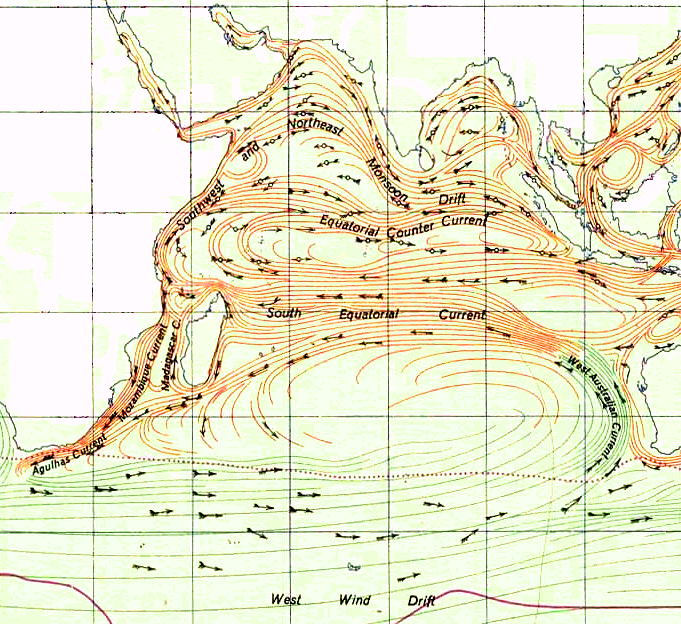 The Indian Ocean Gyre, a clockwise-swirling vortex of ocean currents in the Indian Ocean